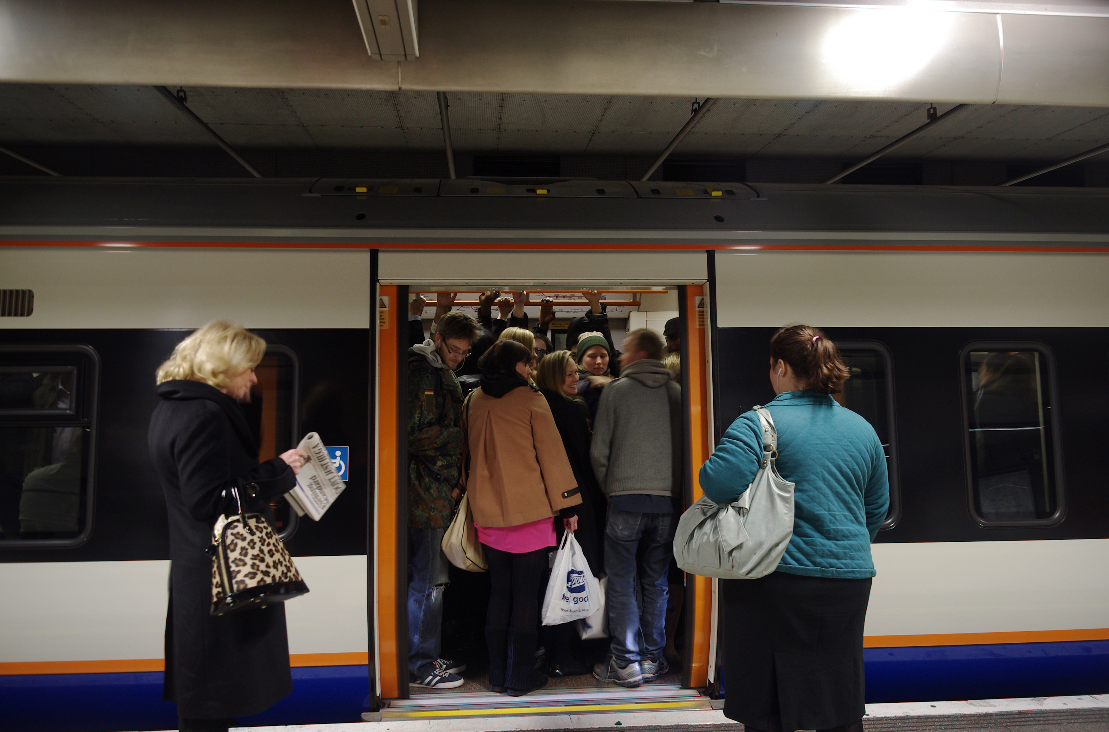 Commuters squeeze onboard a London Overground Class 378 "Capitalstar" EMU as it prepares to head south from Canada Water.